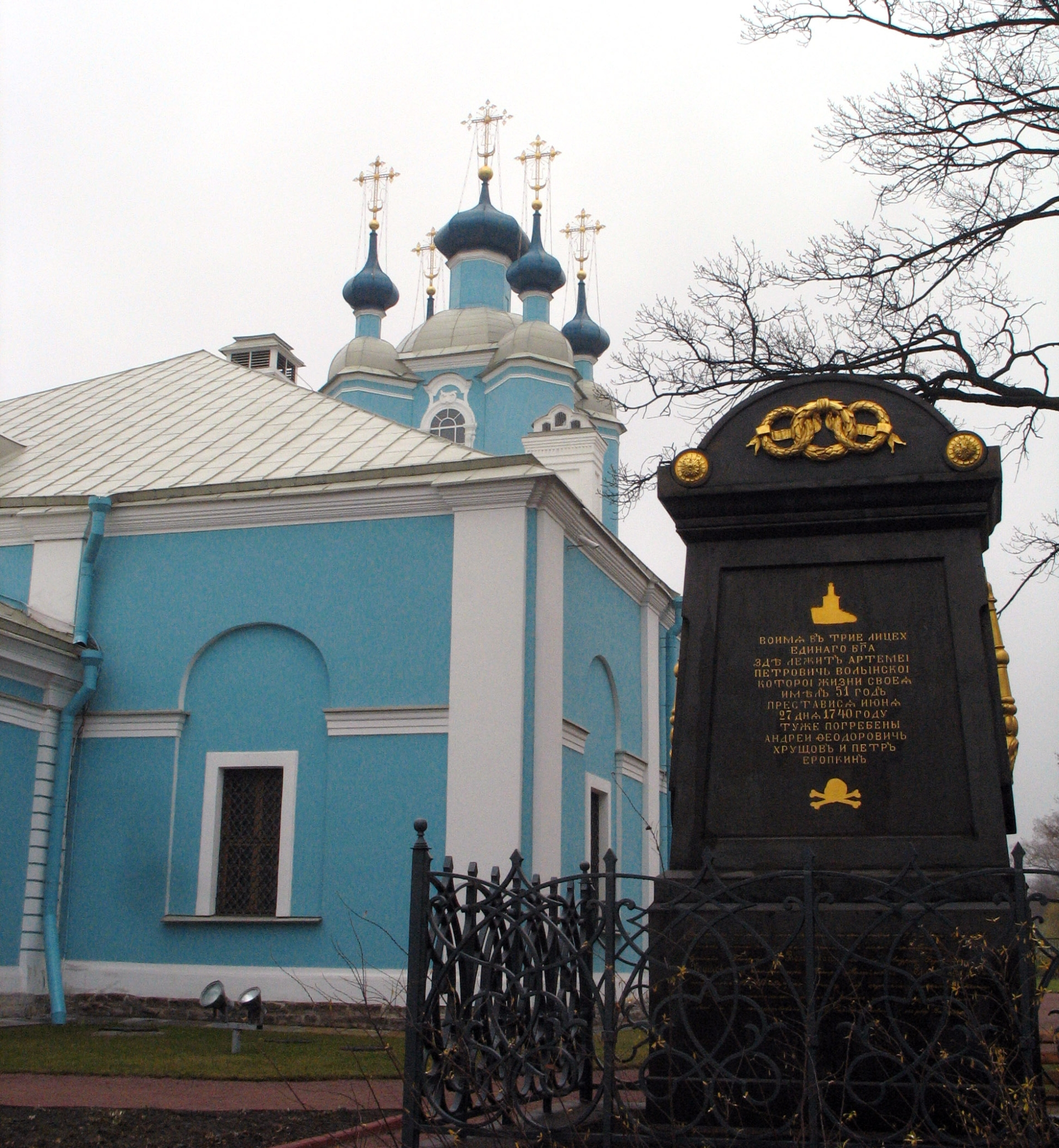 The Saint Sampson's Cathedral in St. Petersburg (left) and the grave of Artemy Volynsky and Pyotr Yeropkin, executed for conspiracy and treason in 1740. Tomb designed by Alexander Opekushin, installed in 1886. Описание надгробия